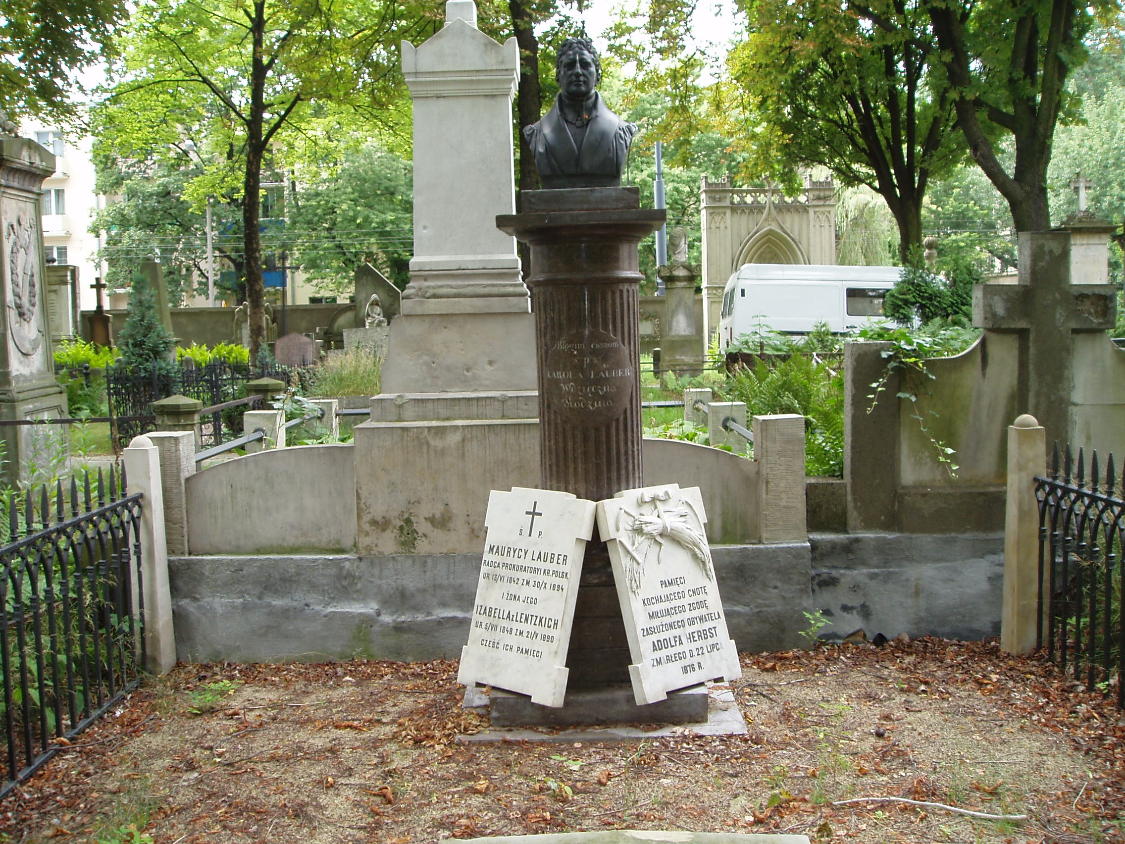 Lauber family tomb, lutheran cemetery in Warsaw